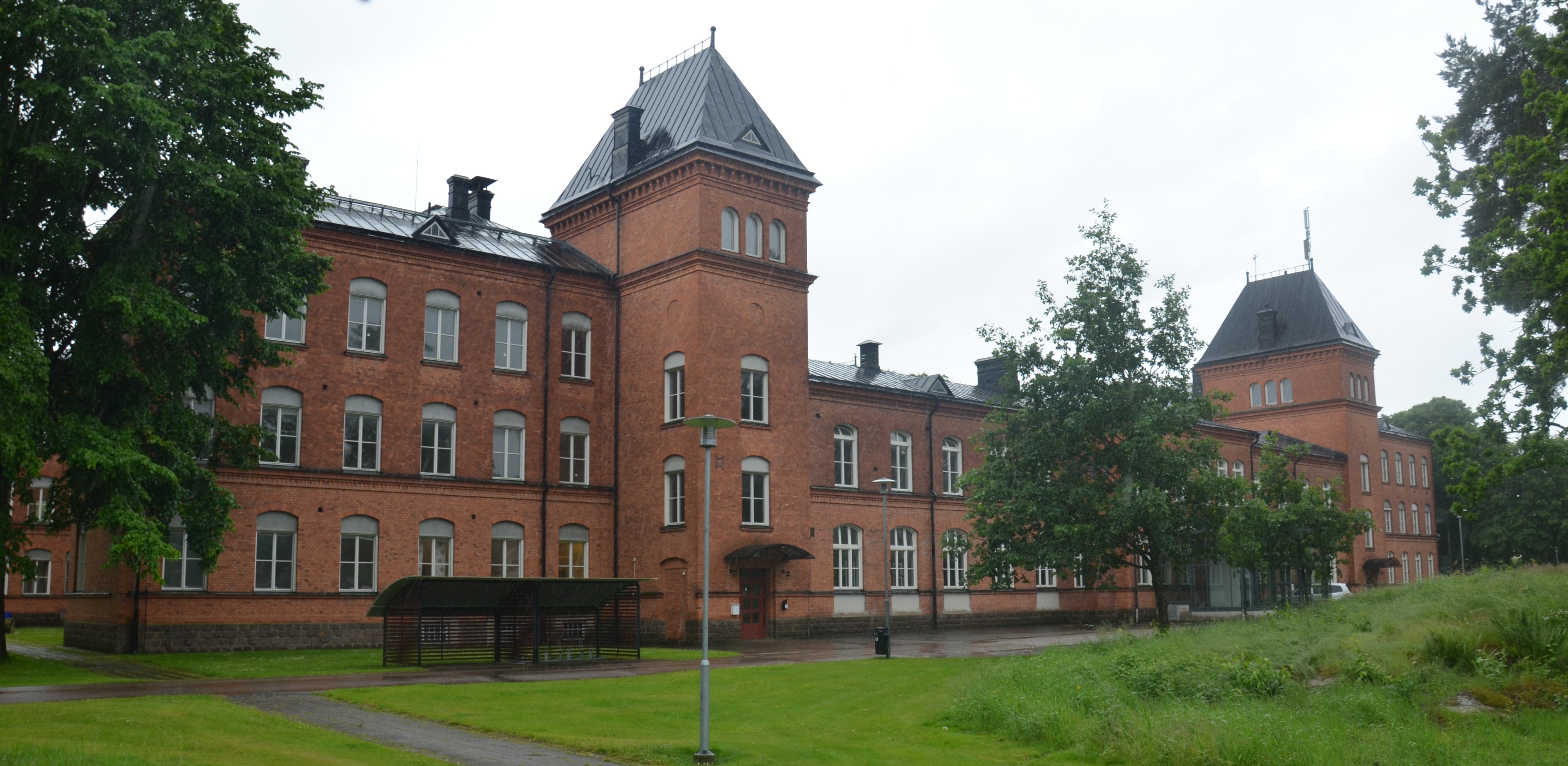 Main building of former Restad sjukhus in Vänersborg